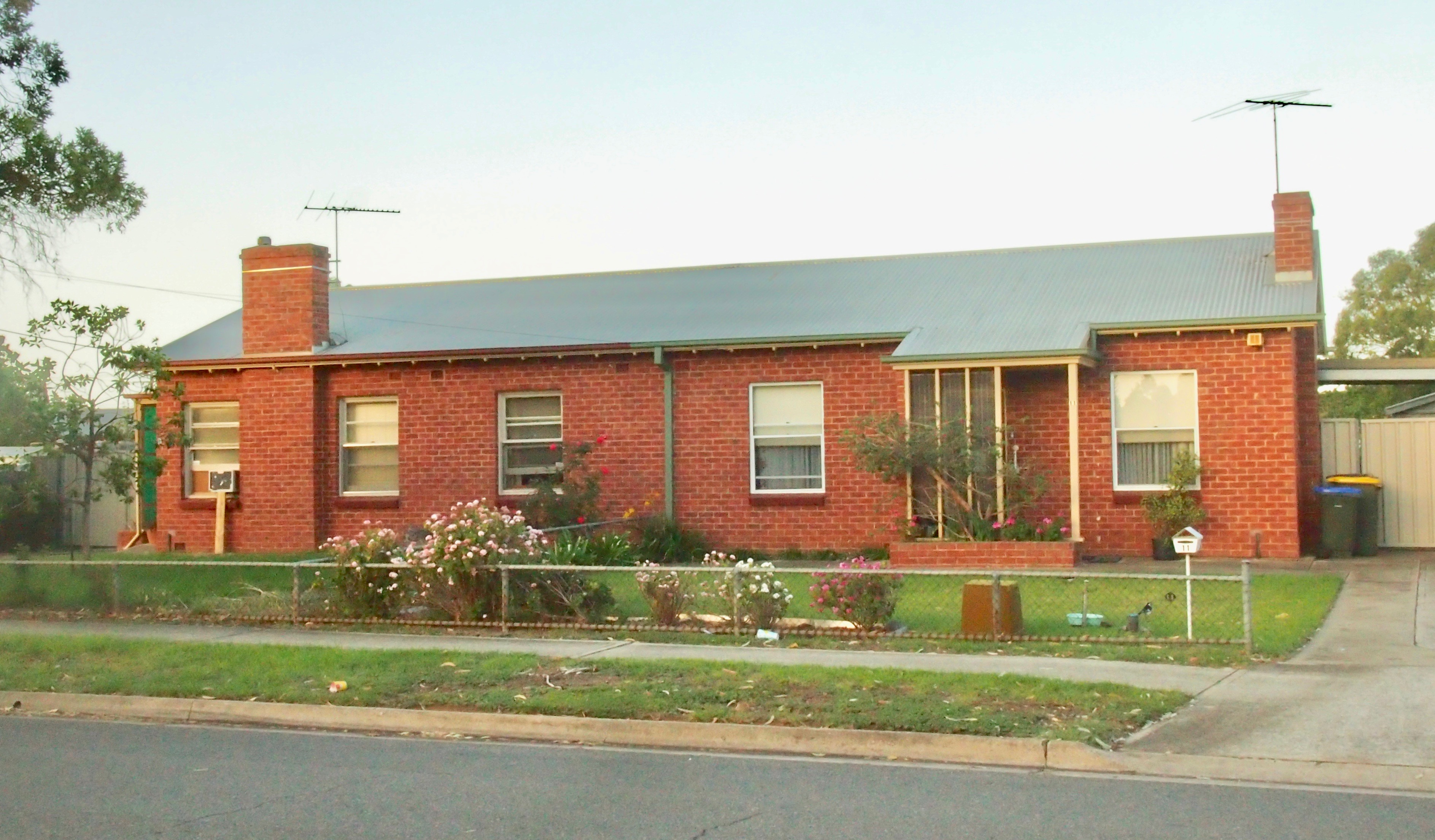 South Australian Housing Trust semi-detached cottages, built in the late 1940s at Seaton, and visible in 1949 aerial photo 7-161. The exteriors show very little modification of the original design. Original filename = P4041581.JPG